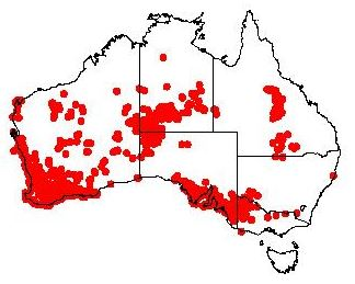 Exocarpos sparteus Occurrence data from Australasian Virtual Herbarium downloaded 2019-08-24 using